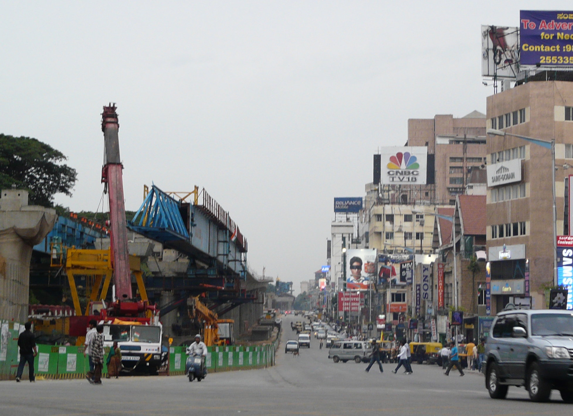 This is the beginning of one of Bangalore's main retail/commercial areas. Note the Metro construction to the left of the road.